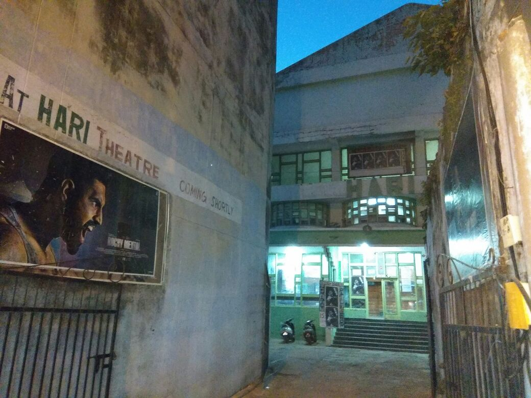 This photo shows you about Punjabi cinema at Jammu,India सिनेमा जम्मू च ਪੰਜਾਬੀ: ਜੰਮੂ ਵਿੱਚ ਪੰਜਾਬੀ ਸਿਨੇਮਾ ਦੀ ਝਲਕ ਇਹ ਫੋਟੋ ਦਿਖਾ ਰਹੀ ਹੈ! جممو وچ پنجابی سنیما